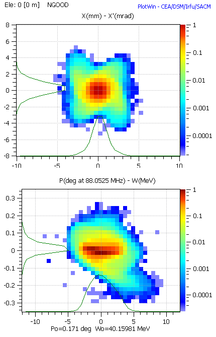 Beam represented by a distribution function projected in two 2D sub-phase-spaces.